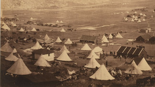 Cavalry camp, looking towards Kadikoi.